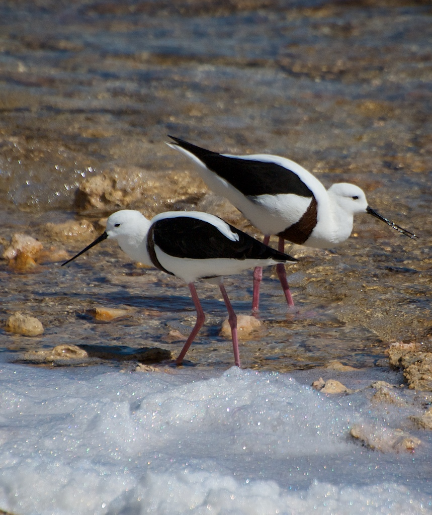 Banded Stilts, Rottnest Island, 2010.